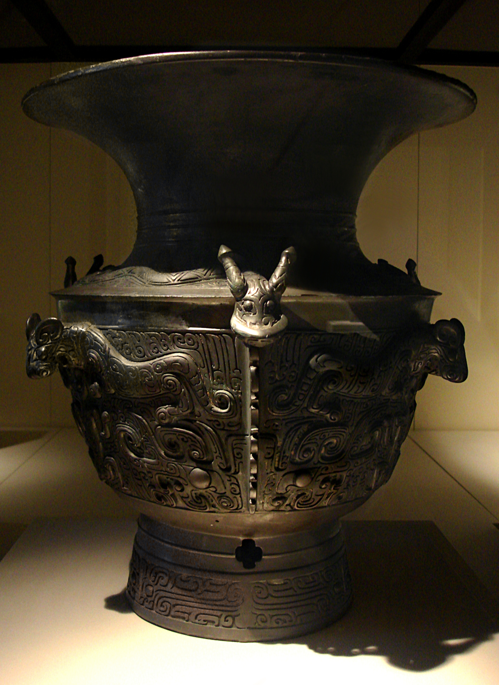 Bronze Zun (wine storeage vessel). Exhibition "Treasures of China", Canadian Museum of Civilization, 2007. Shang Dynasty (1600 - 1046 B.C.) Excavated at Funan, Anhui Province, 1957 Three dragons adorn the shoulder of this vessel, and three tigers can be found in relief on the upper belly. The complex ornamentation idicates the high level of bronze-casting technique achieved at this point in time.